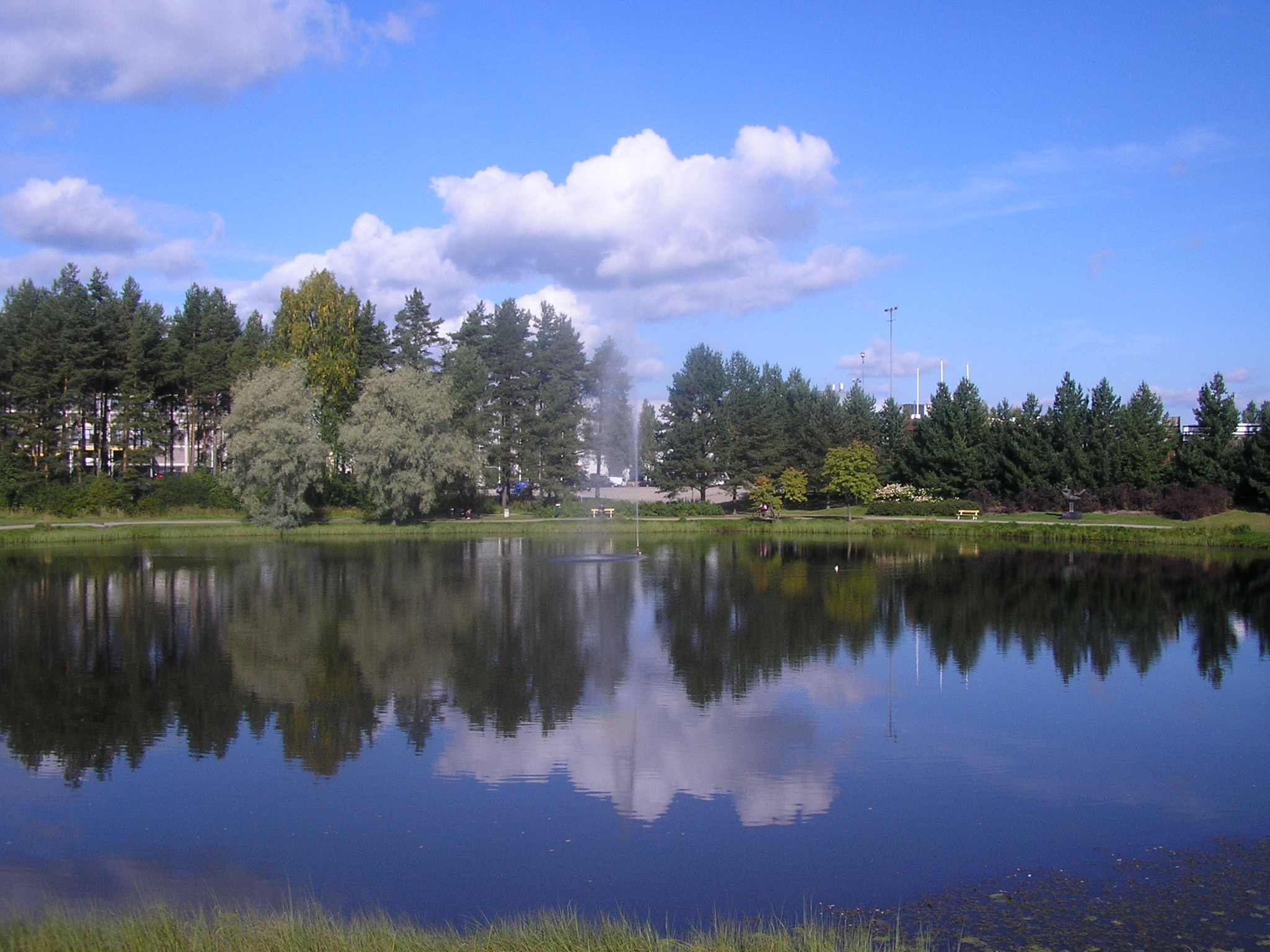 Pond Köyhälampi in Jyväskylä, Finland